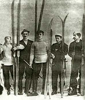 Josef Rössler-Ořovský (in the middle) with his brother Karel (second from left)